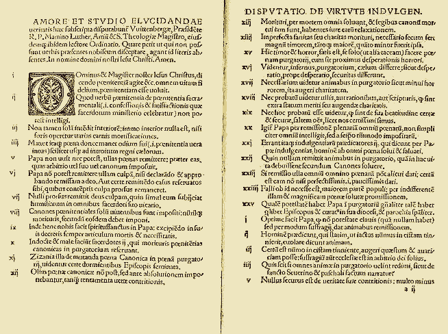 Disputatio pro declaratione virtutis indulgentiarum 95條論綱 Martin Luther 馬丁 路德 Wittenberg: Melchior Lotter d.J., 1522 Sign: RA 92/3237